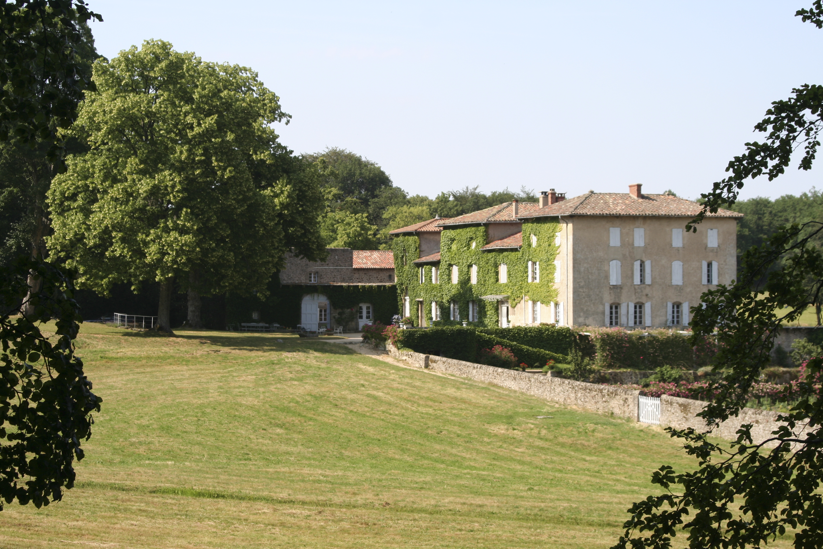 Chabret Farm